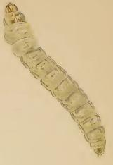 Stainton’s Natural History of the Tineina (1855–1873): Elachista bedellella